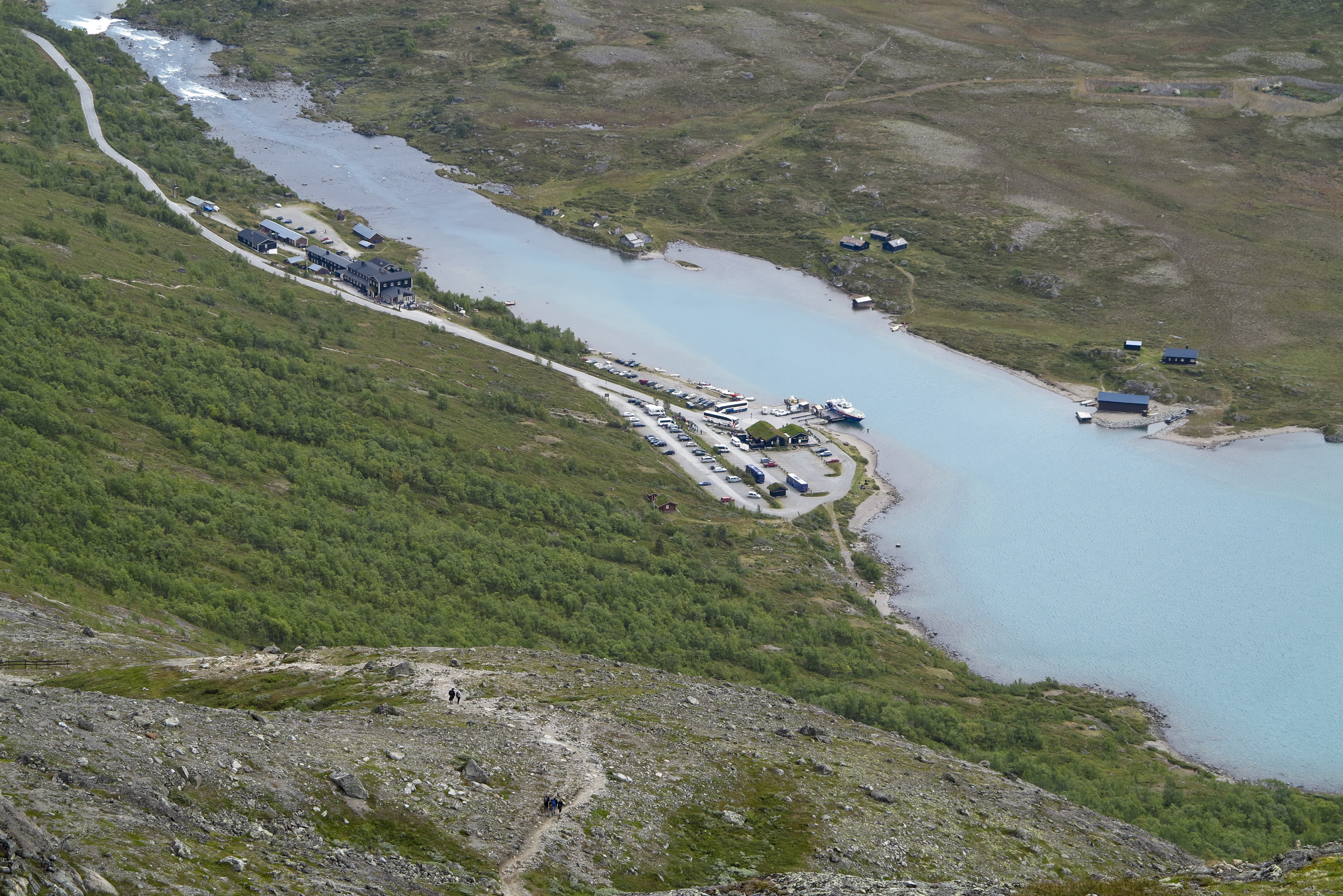 Gjendesheim at east end of lake Gjende, seen from mountain Besseggen. Norway